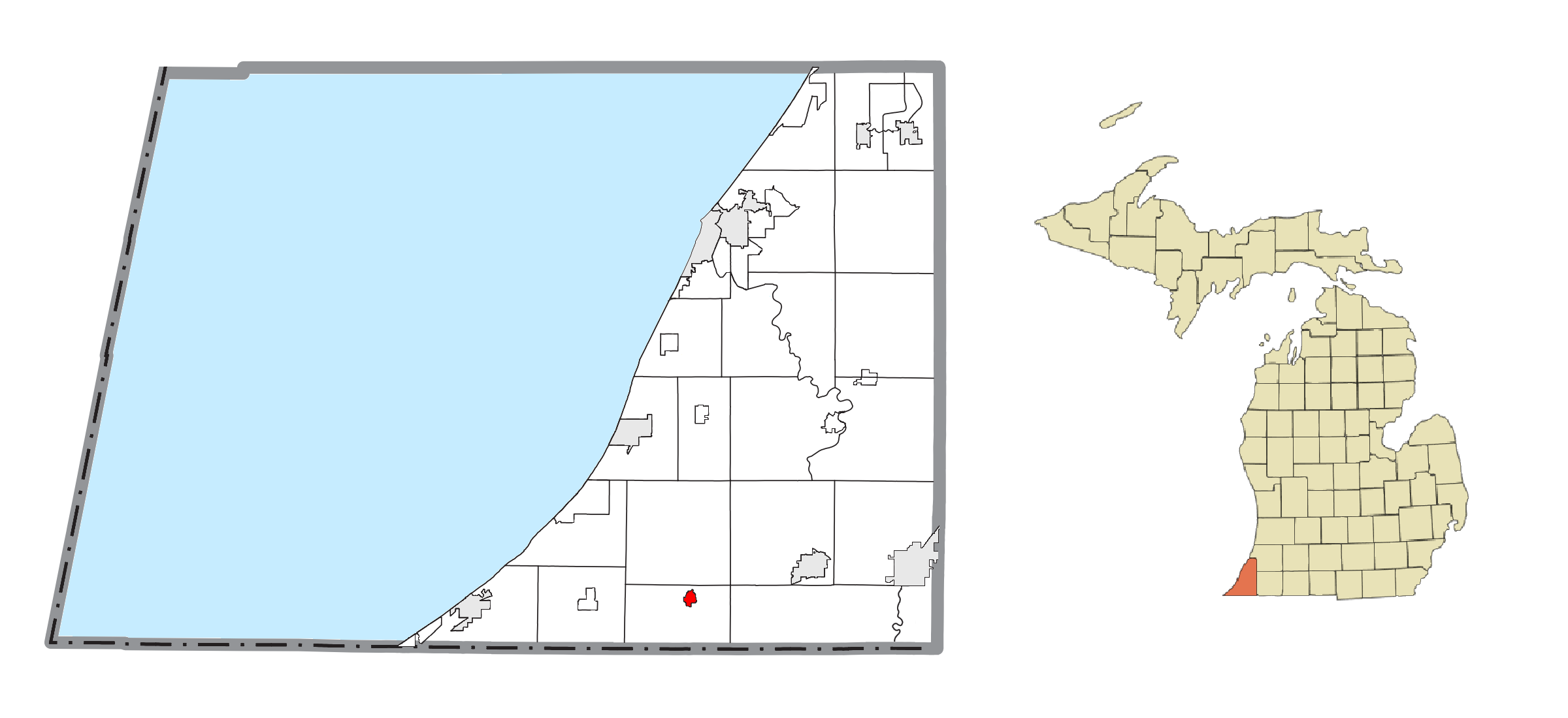 Galien, MI